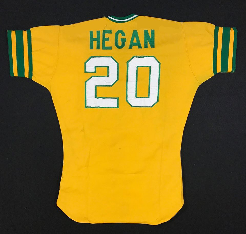 1972 Oakland Athletics #20 Mike Hegan Game Worn Alternate Jersey restored and photographed by William F. Henderson. To contact me, visit my website